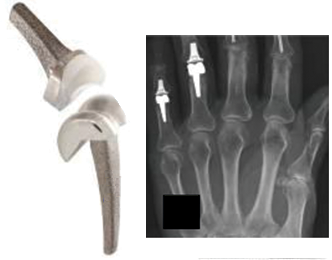 Finger joint replacement prosthesis.